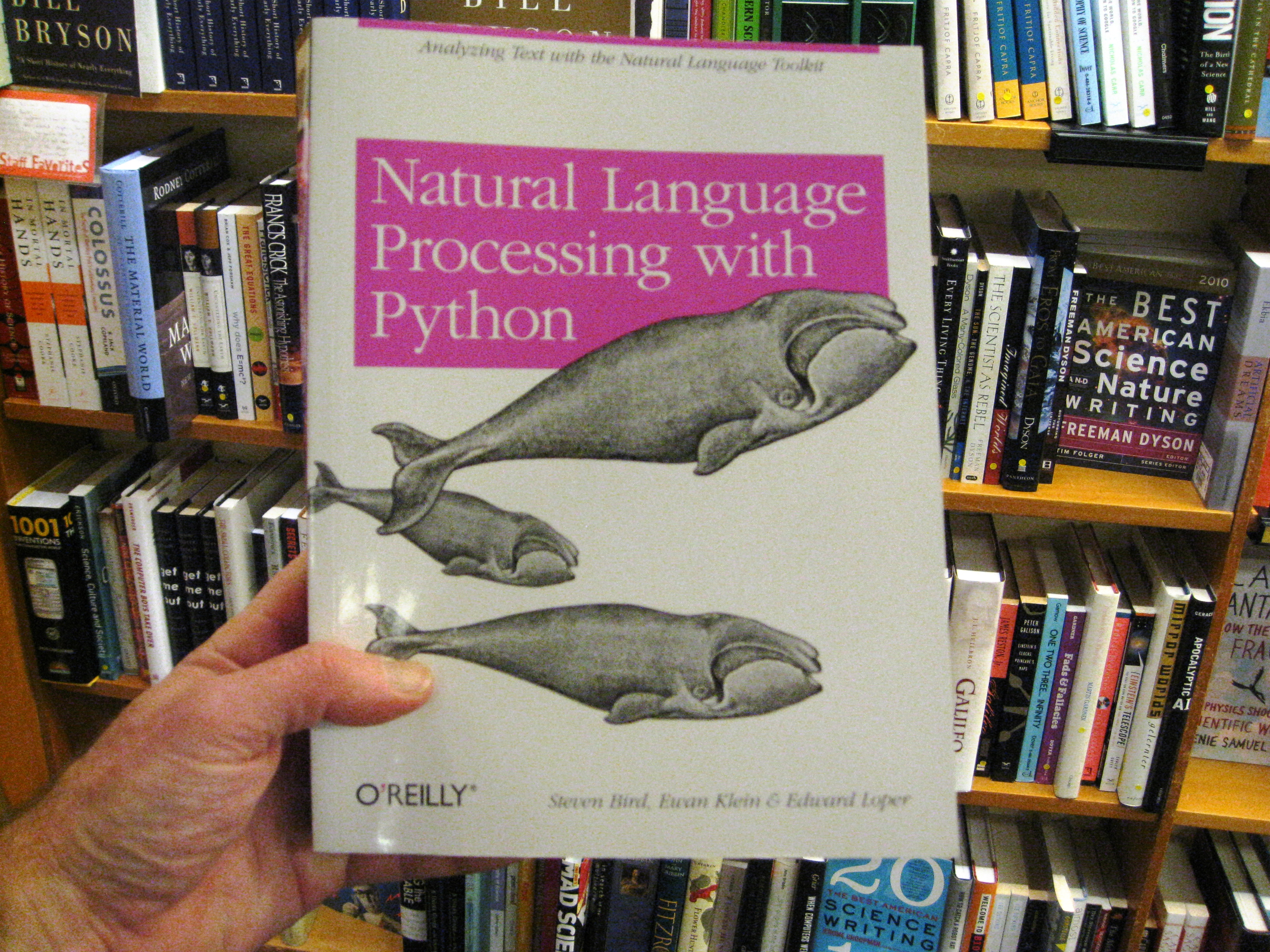 Natural Language Processing with Python by Steven Bird, Ewan Klein and Edward Loper This is a great book - but I want the Kindle edition, meanwhile Check this out at Seen at University of Washington Book Store sea 032